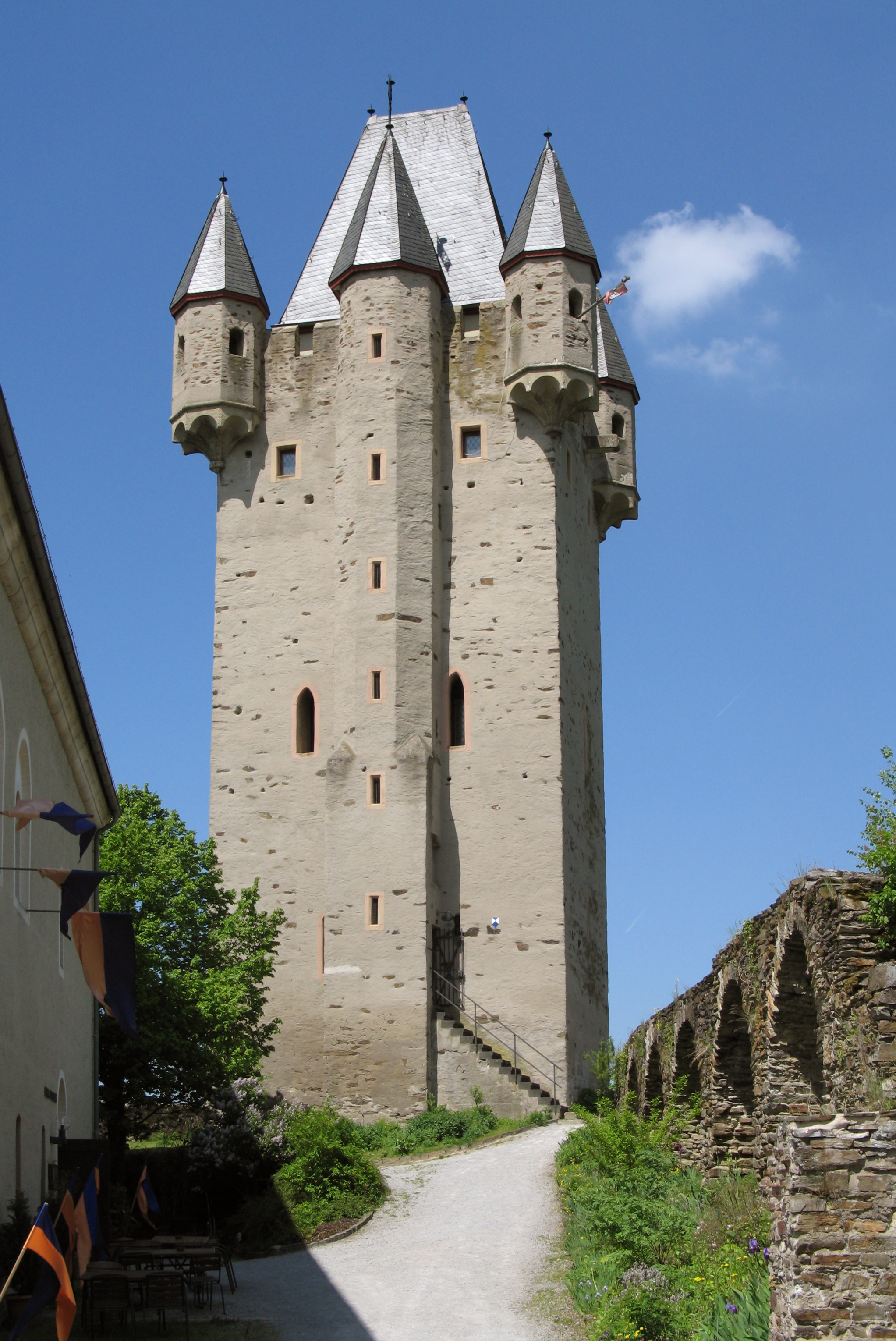 Nassau castle, keep and inner ward. Nassau, Germany.